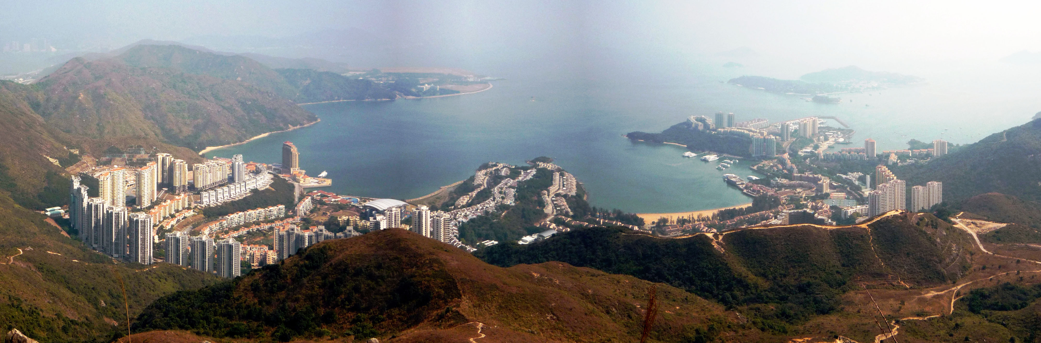 Discovery Bay, viewed from the mountains behind - Tiger's Head (老虎頭). Taken in February 2011.中文（香港）: 愉景灣, viewed from the mountains behind (老虎頭). Taken in February 2011